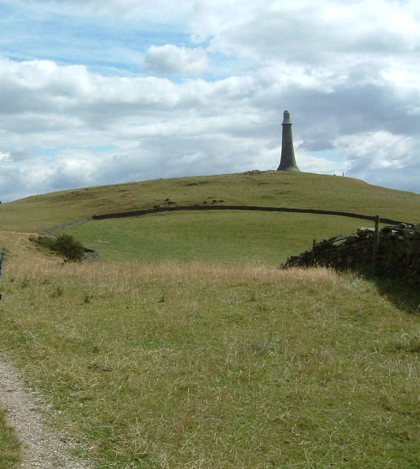 John Barrow Monument, Ulverston, Cumbria. Taken by James@hopgrove, August 2005.